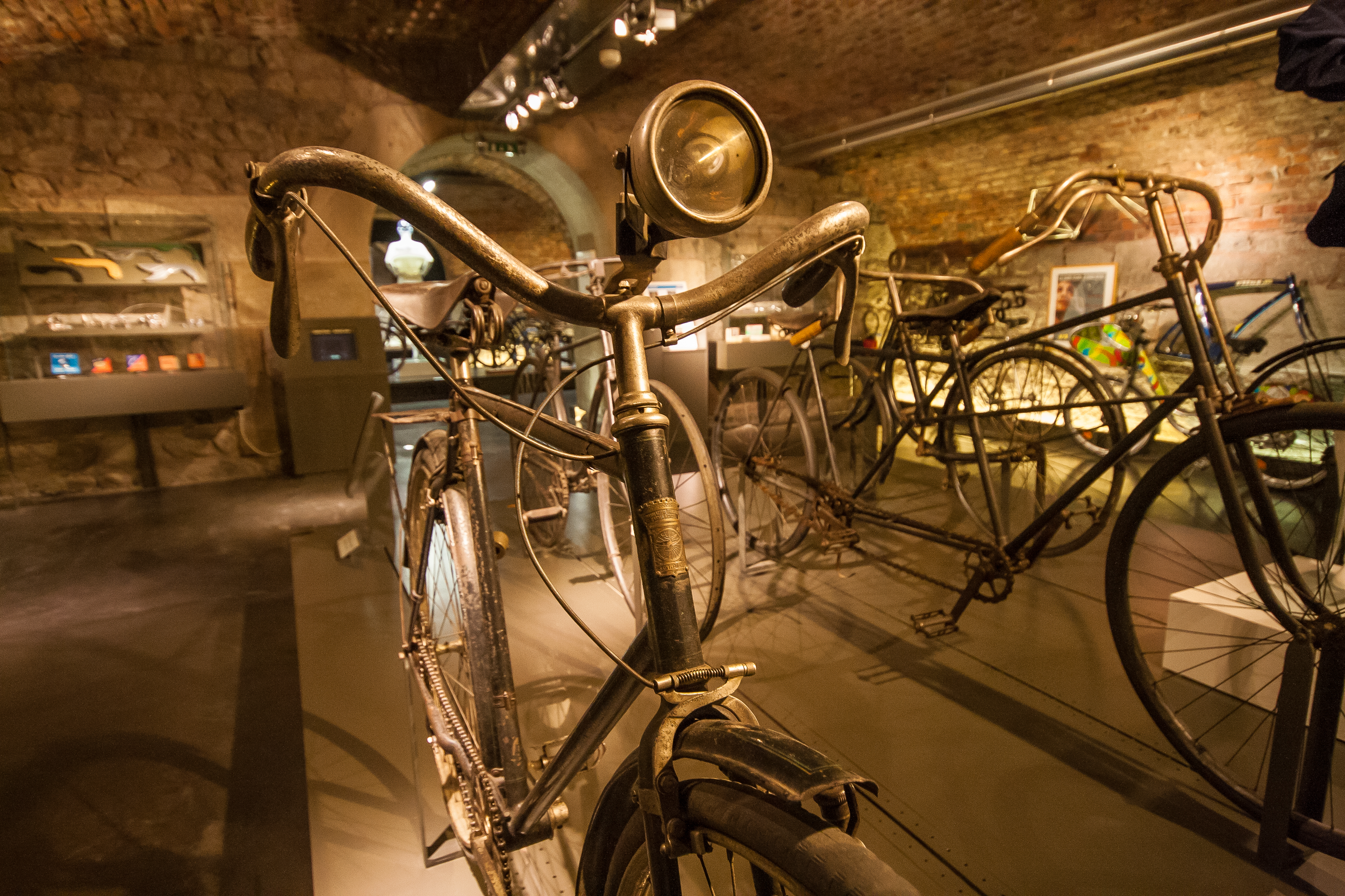 Retro-direct bicycle Hirondelle, produced by the Manufacture des Armes et Cycles de Saint-Etienne in 1932. Cycles' Department in Saint-Étienne, Museum of Art and Industry.